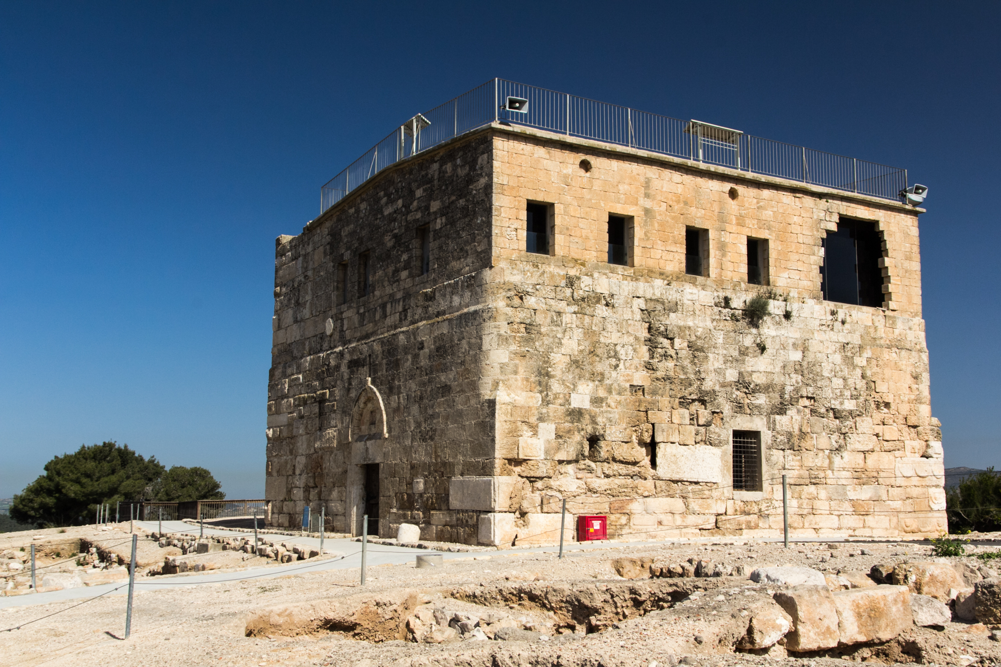 Crusader fortlet at Sepphoris